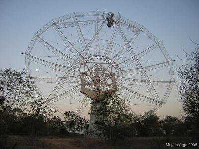 An antenna of the GMRT in the central square at sunset. Image taken by Megan Argo, February 2005.